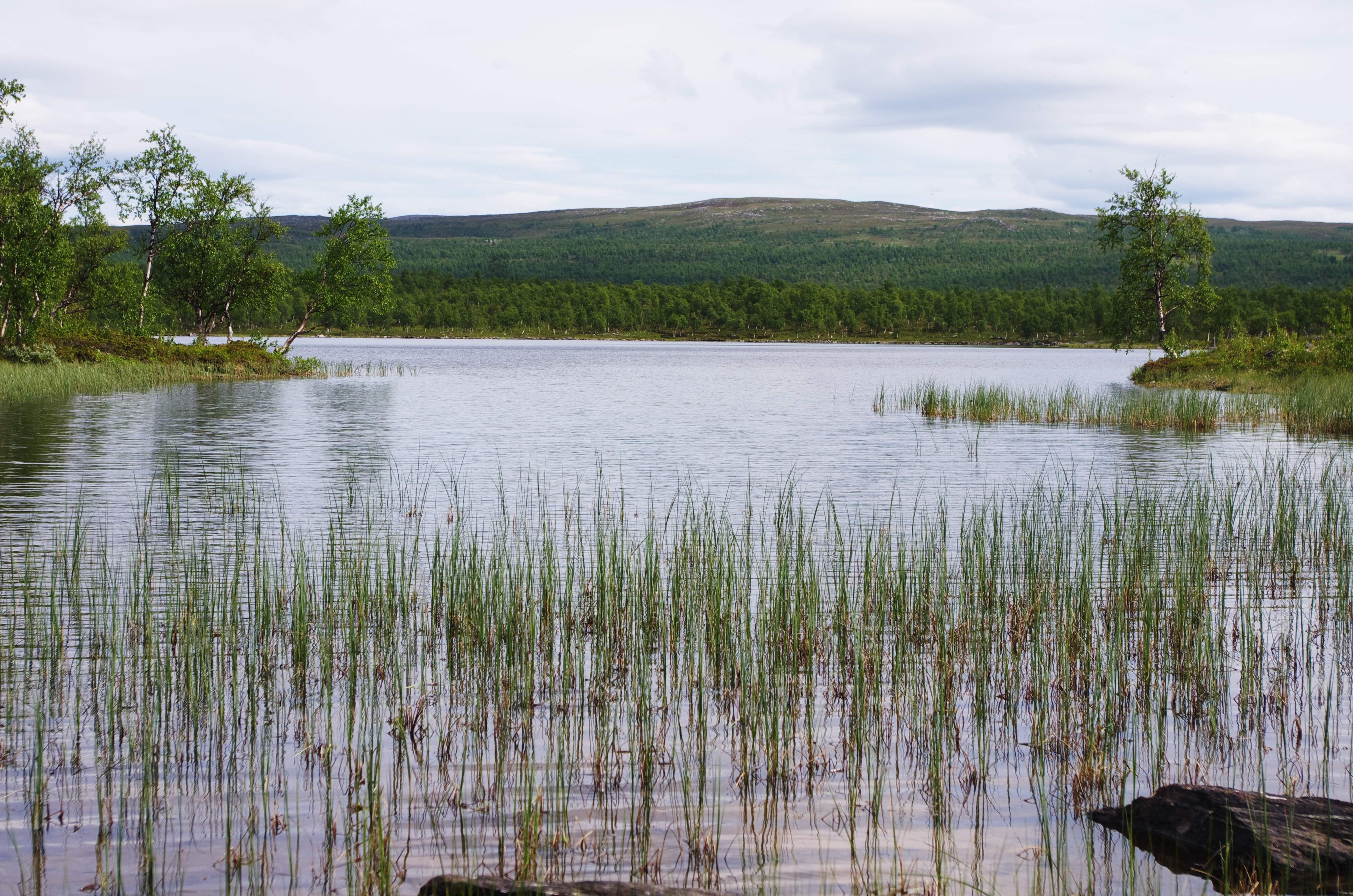 Ruoutejaure (modern spelling Ruovddejavrre) is a lake in Arjeplog Municipality, Lappland, Sweden.